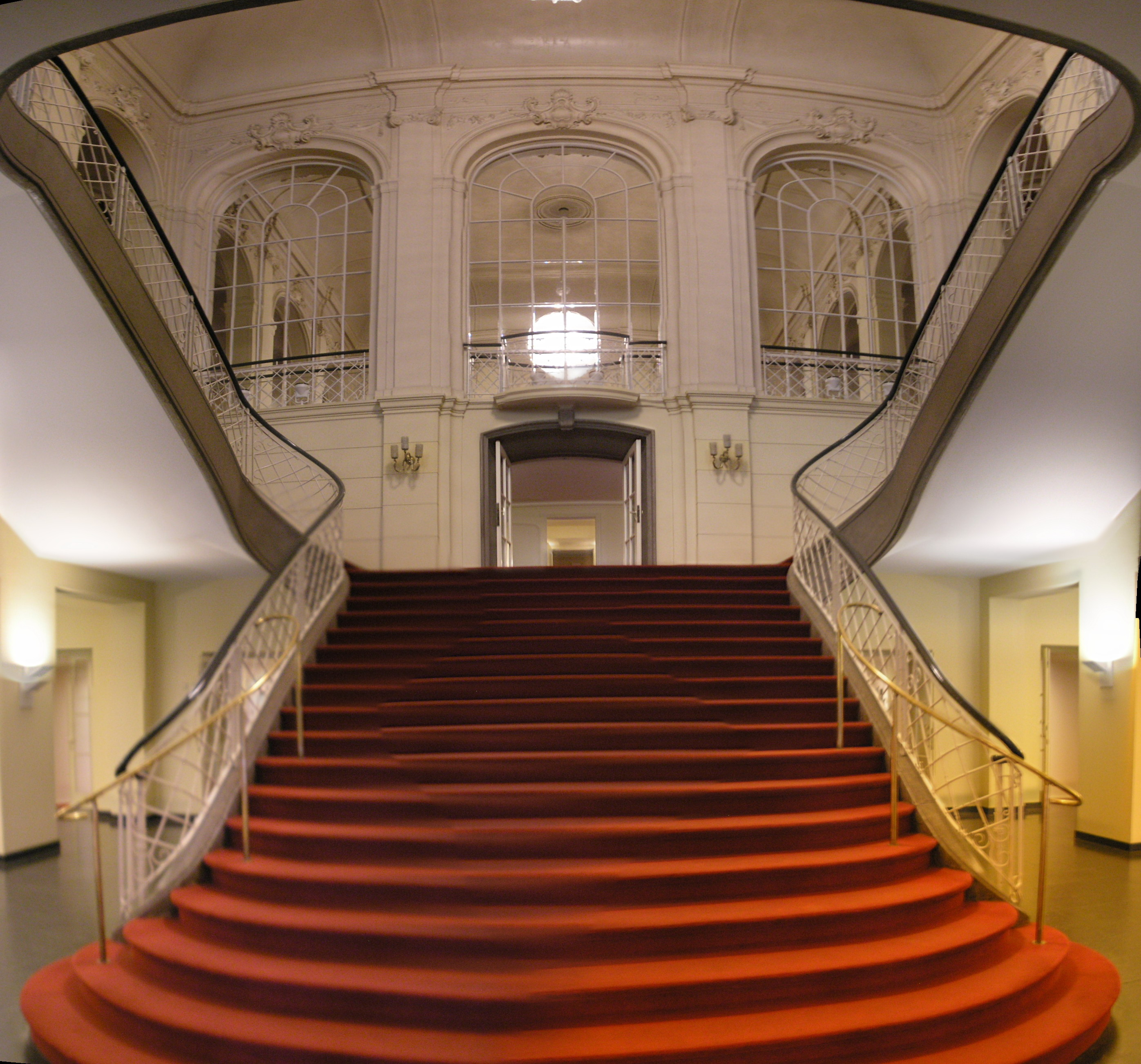 Grand staircase of the Komische Oper Berlin